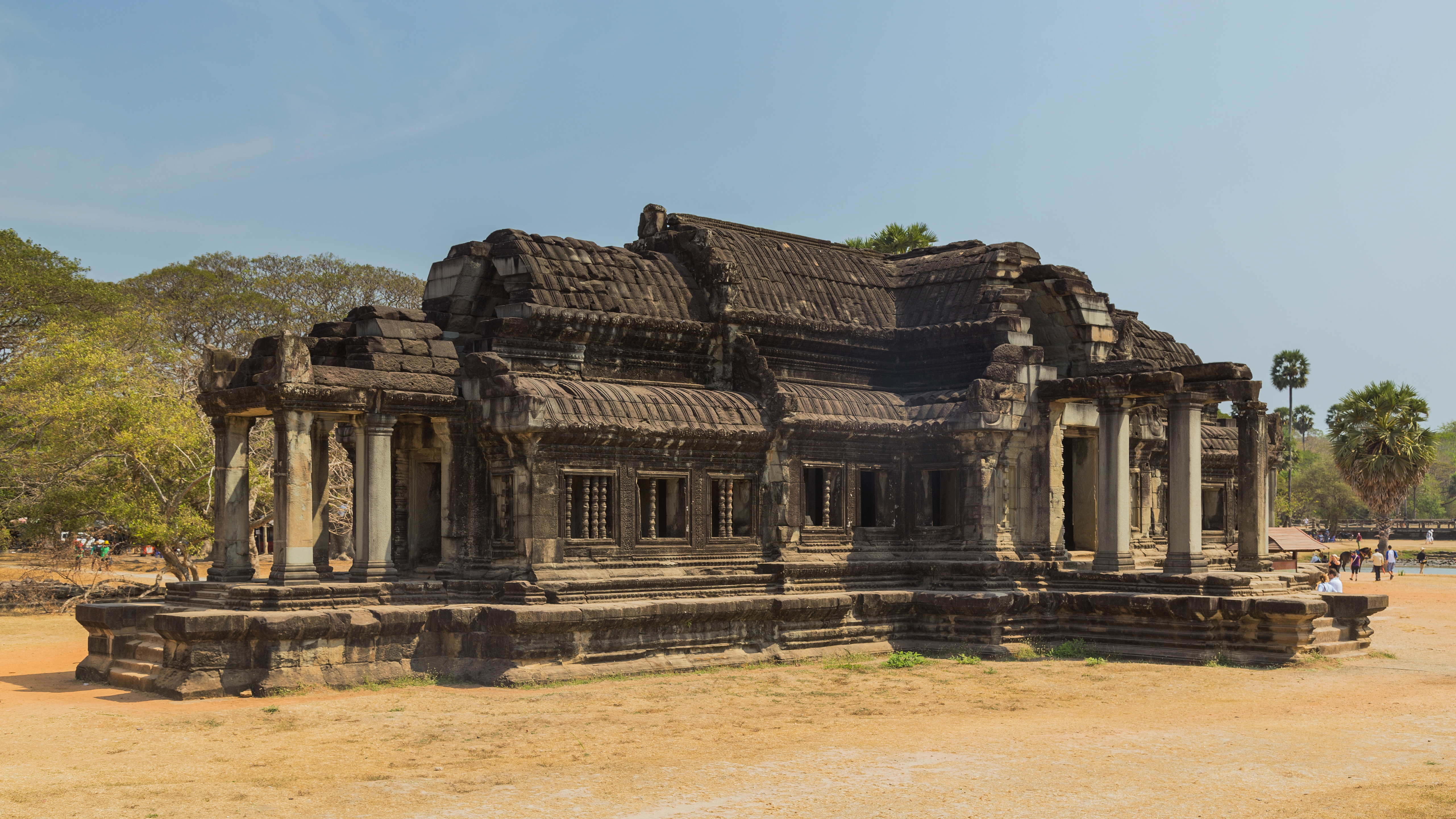 Library. Angkor Wat, Siem Reap Province, Cambodia.